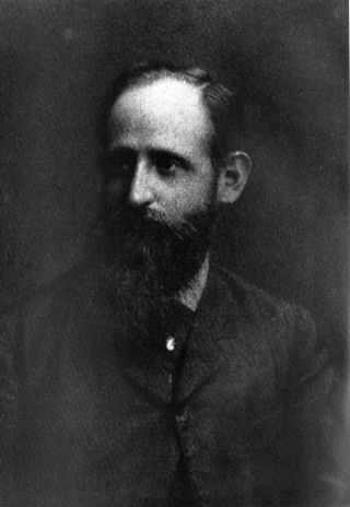 Josef Breuer 1877 (35 years old). Published in his Curriculum vitae. Reproduction from the archive of Institute for the History of Medicine, Vienna, Austria.